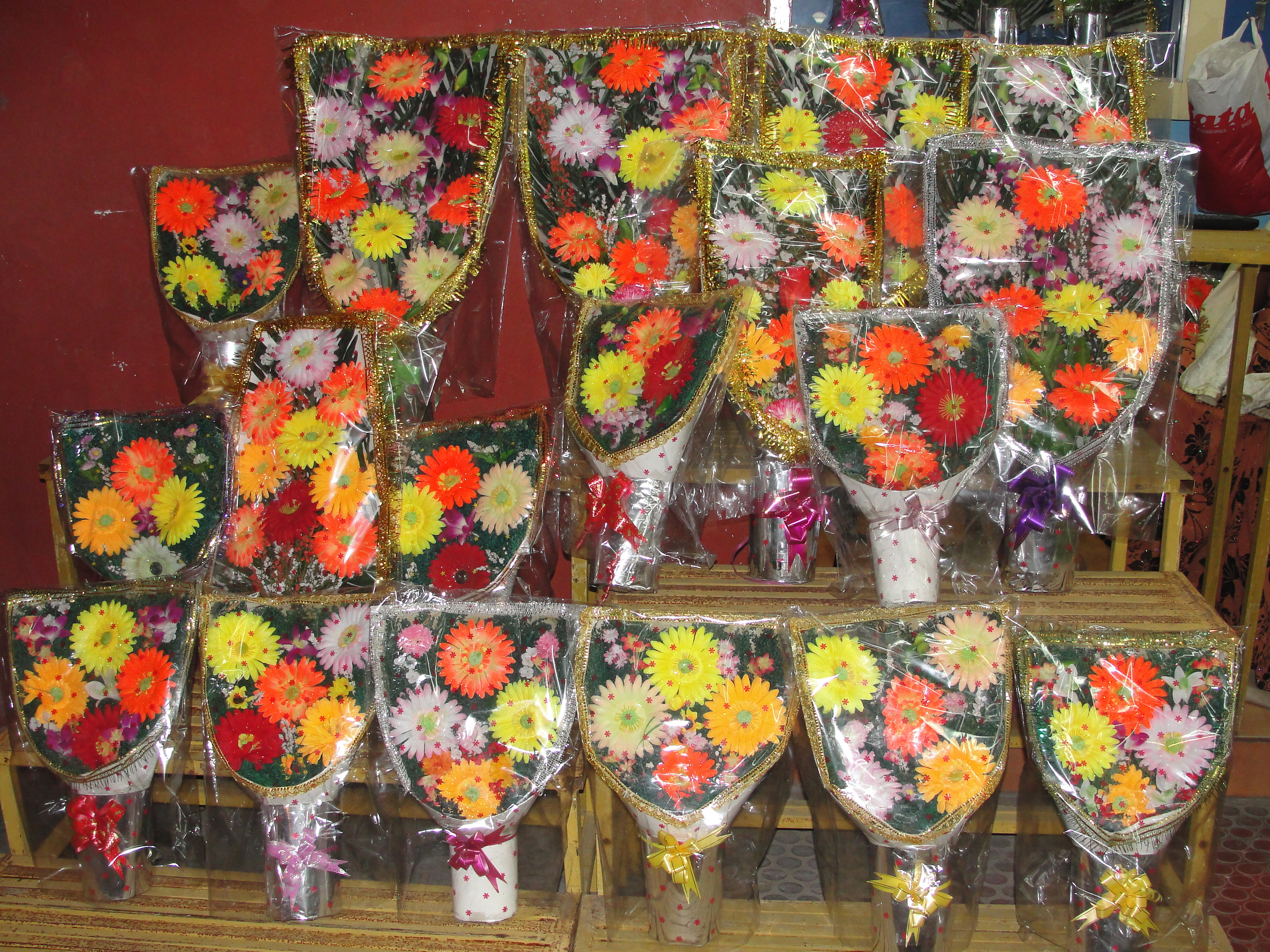 A shot of bouquets in a shop